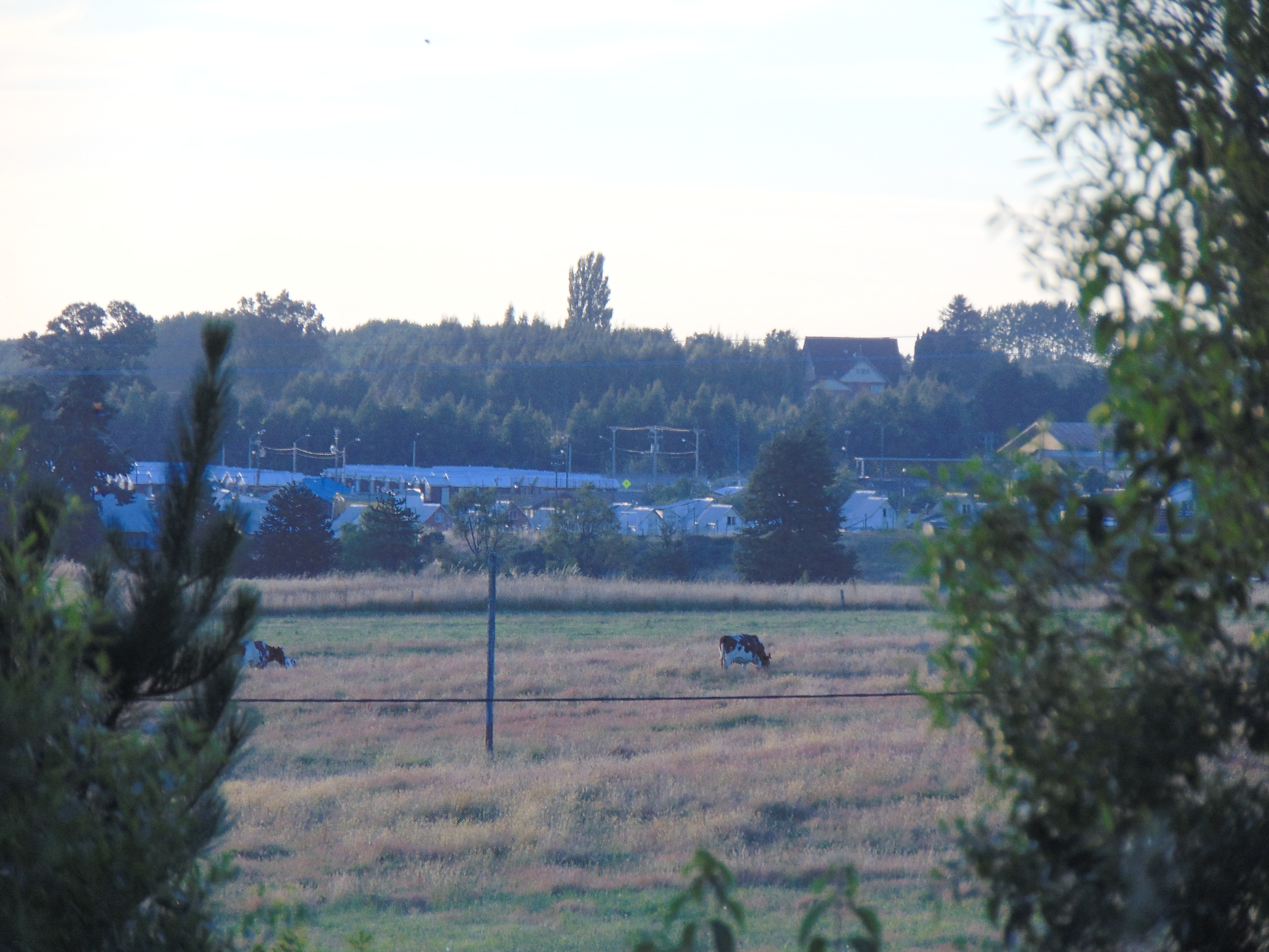 Nueva Braunau seen from east-taken from 1 km (0,6 mi) distance